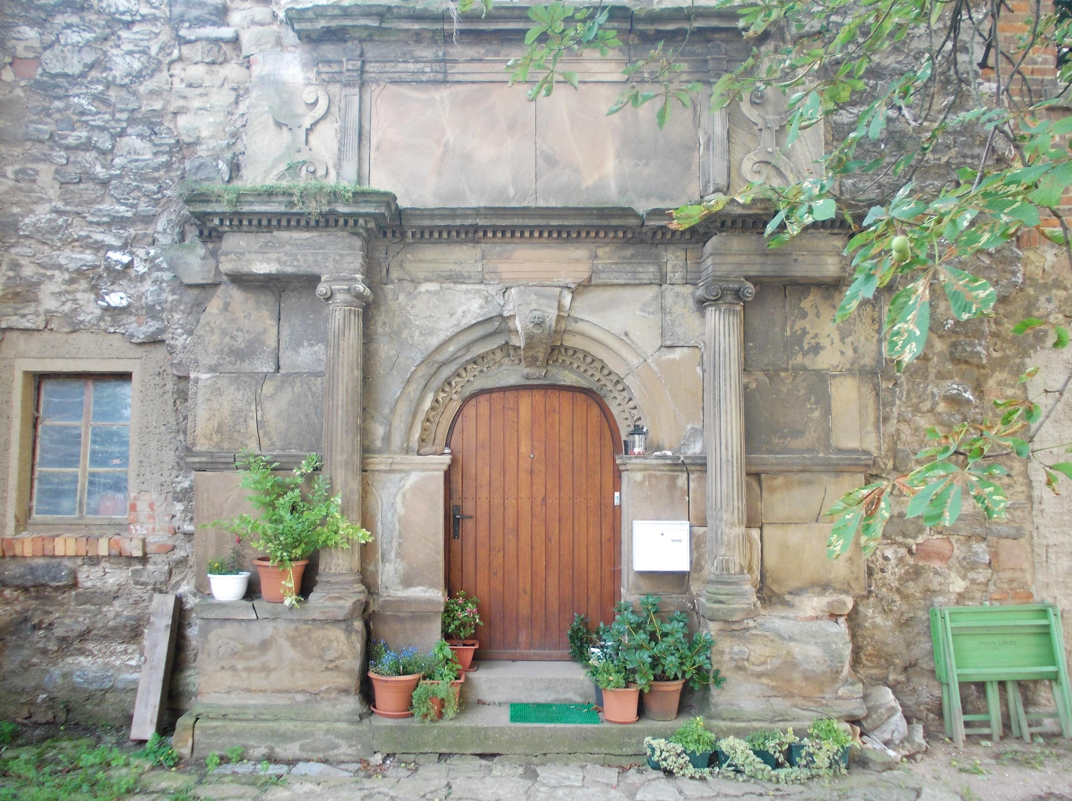 Wendelstein Castle (Kaiserpfalz, district: Burgenlandkreis, Saxony-Anhalt)